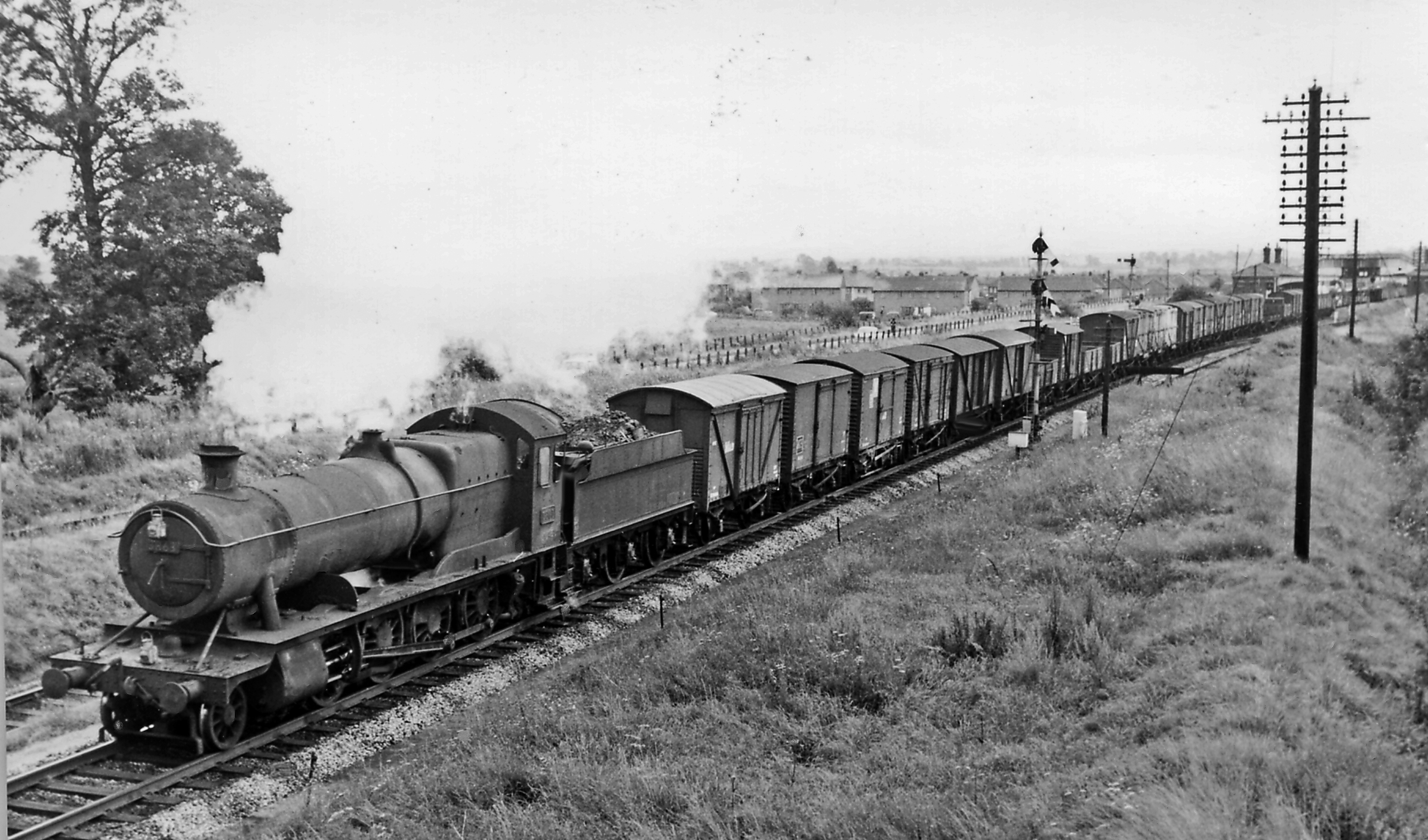 Down freight west of Patchway View southward, towards Filton Junction, Swindon etc. on the ex-GWR South Wales Direct line, also Bristol etc. on the ex-GWR Bristol & South Wales line. The Class H freight is heading for the Severn Tunnel, with Collett '2884' class 2-8-0 No. 3863 (built 11/42, withdrawn 10/65). (See also ST6081 : Penzance - Swansea express beyond Patchway station).